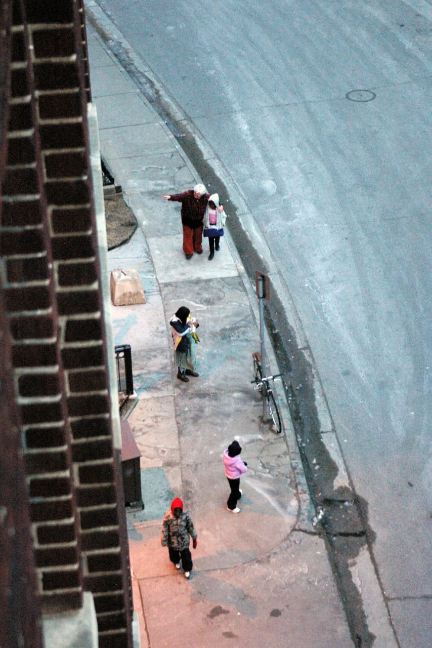 April 4, 2007 - Oak Grove St., Minneapolis, Minnesota